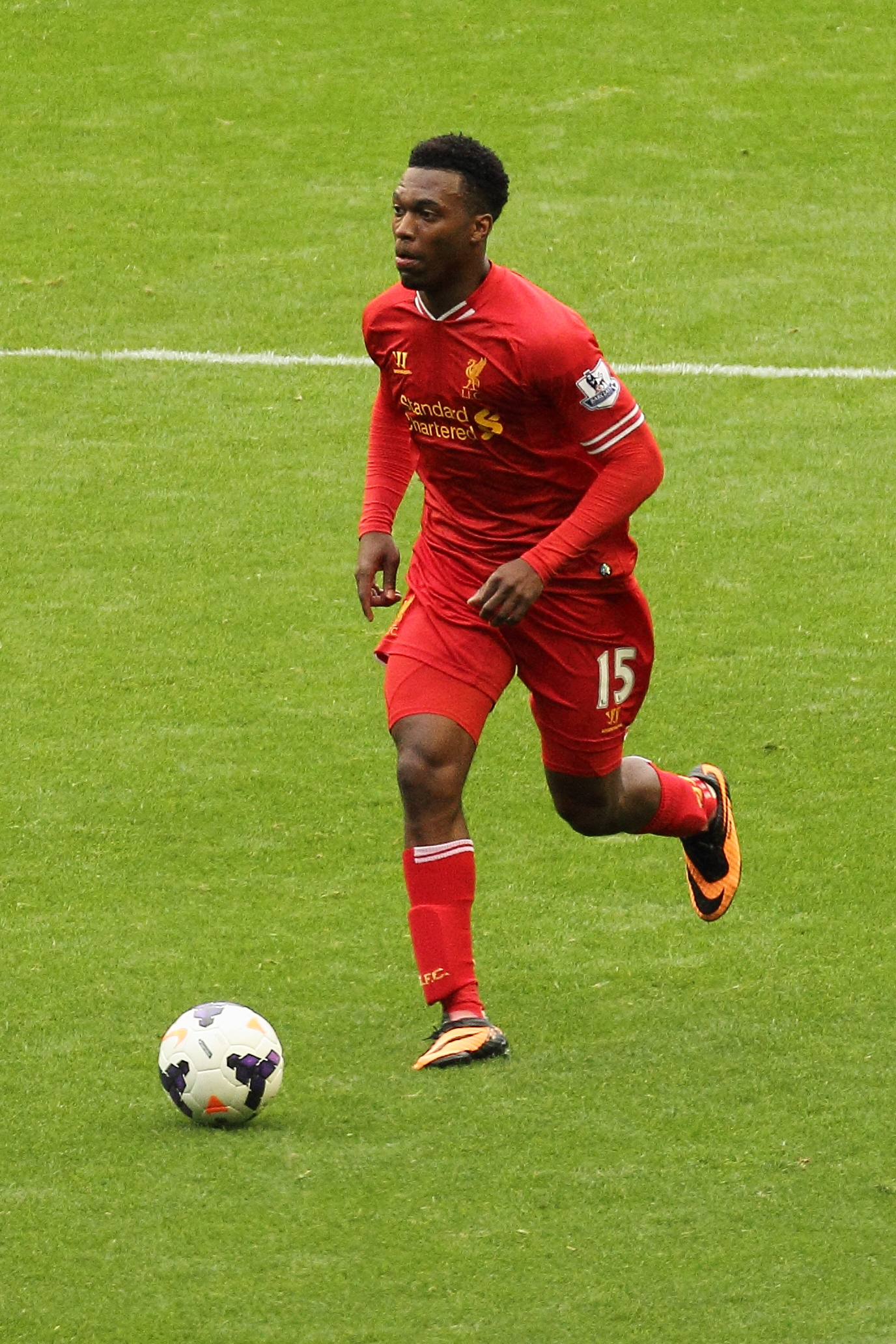 Sturridge comes forward